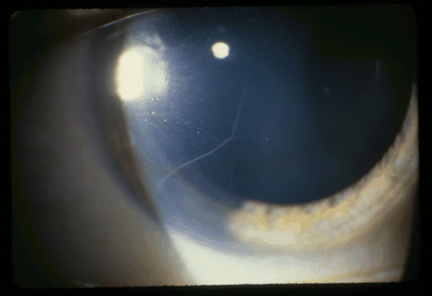 Case 197 photo 3, clinical photo 3: The patient was a 27-year-old female with a diagnosis of multiple endocrine neoplasia and prominent corneal nerves ([1], [2], [3]). She also had nodules of the tongue. She underwent thyroidectomy and surgery for pheochromocytoma. Metastases were found in the liver.